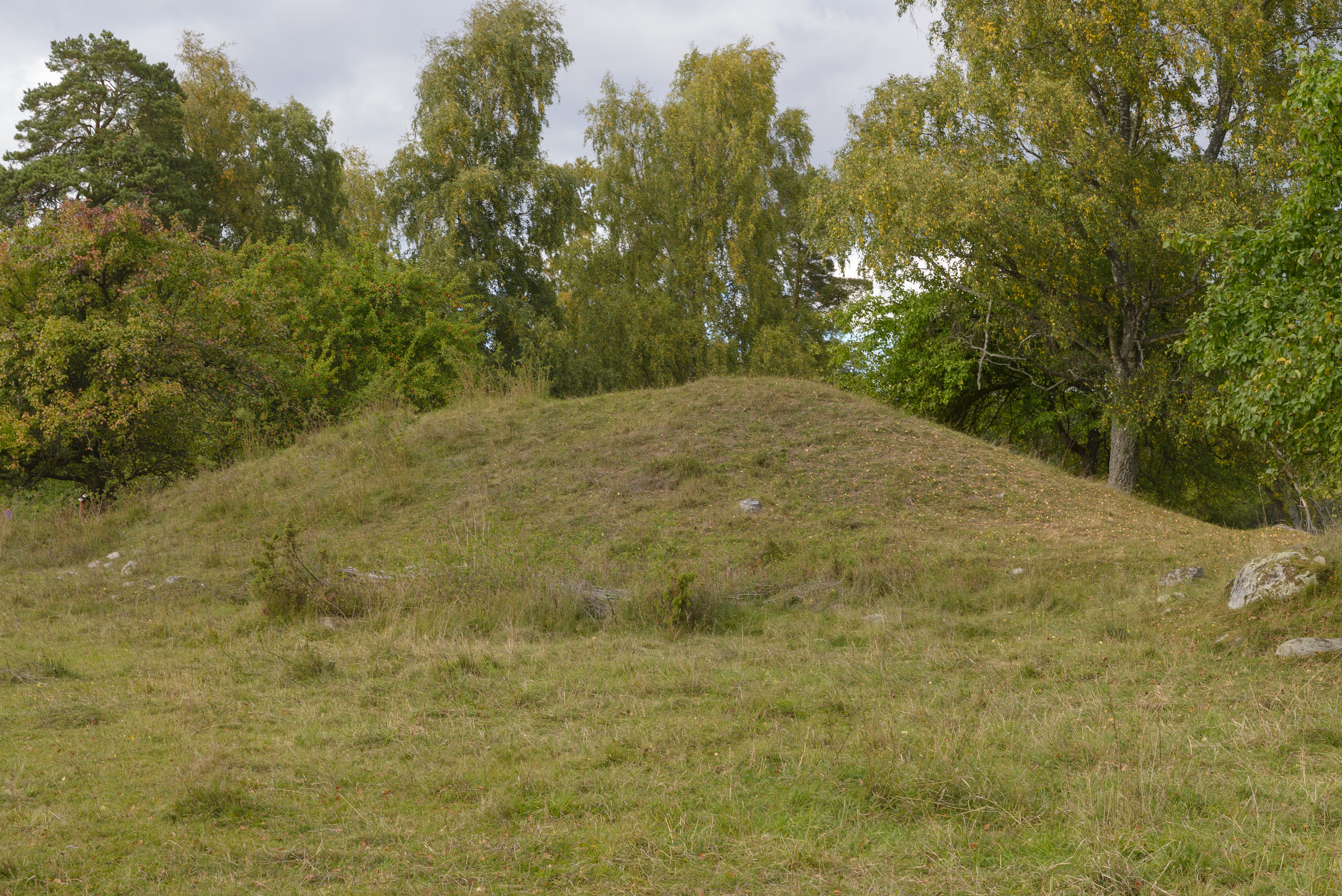 Burial mounds (Kungshögarna, Kings mound) at Hovgården, Adelsö. Part of Birka and Hovgården World Heritage Site.